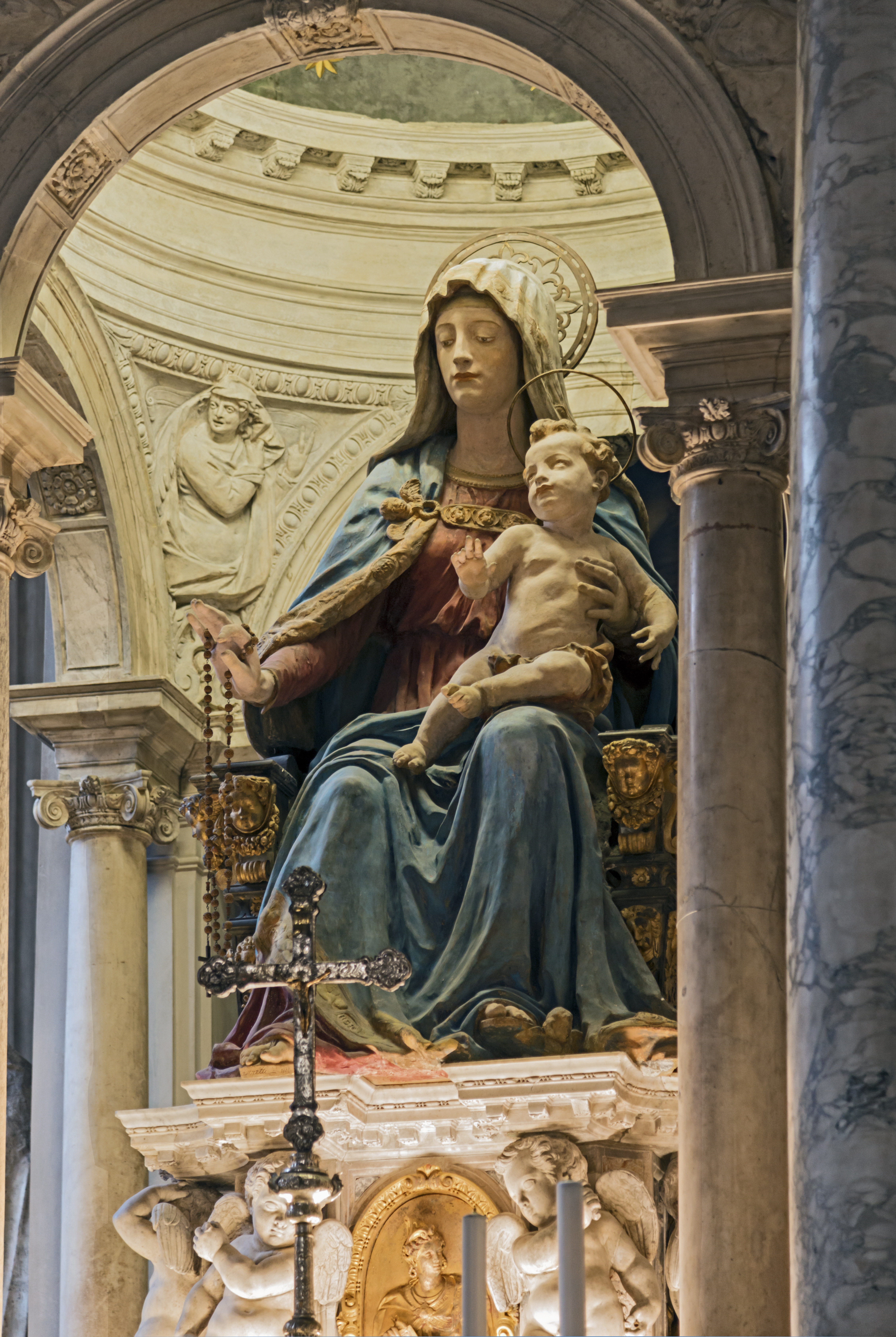 Santi Giovanni e Paolo in Venice. Chapel of our Lady of the Rosary or Chapel of Lepanto, in memory of the victory of 1571 against the Turkish fleet. The altar is surmounted by a Ciborium Girolamo Campagna (V.1600). Inside the statue of Madonna del Rosario, sculpted by Giovanni Dureghello in 1914.